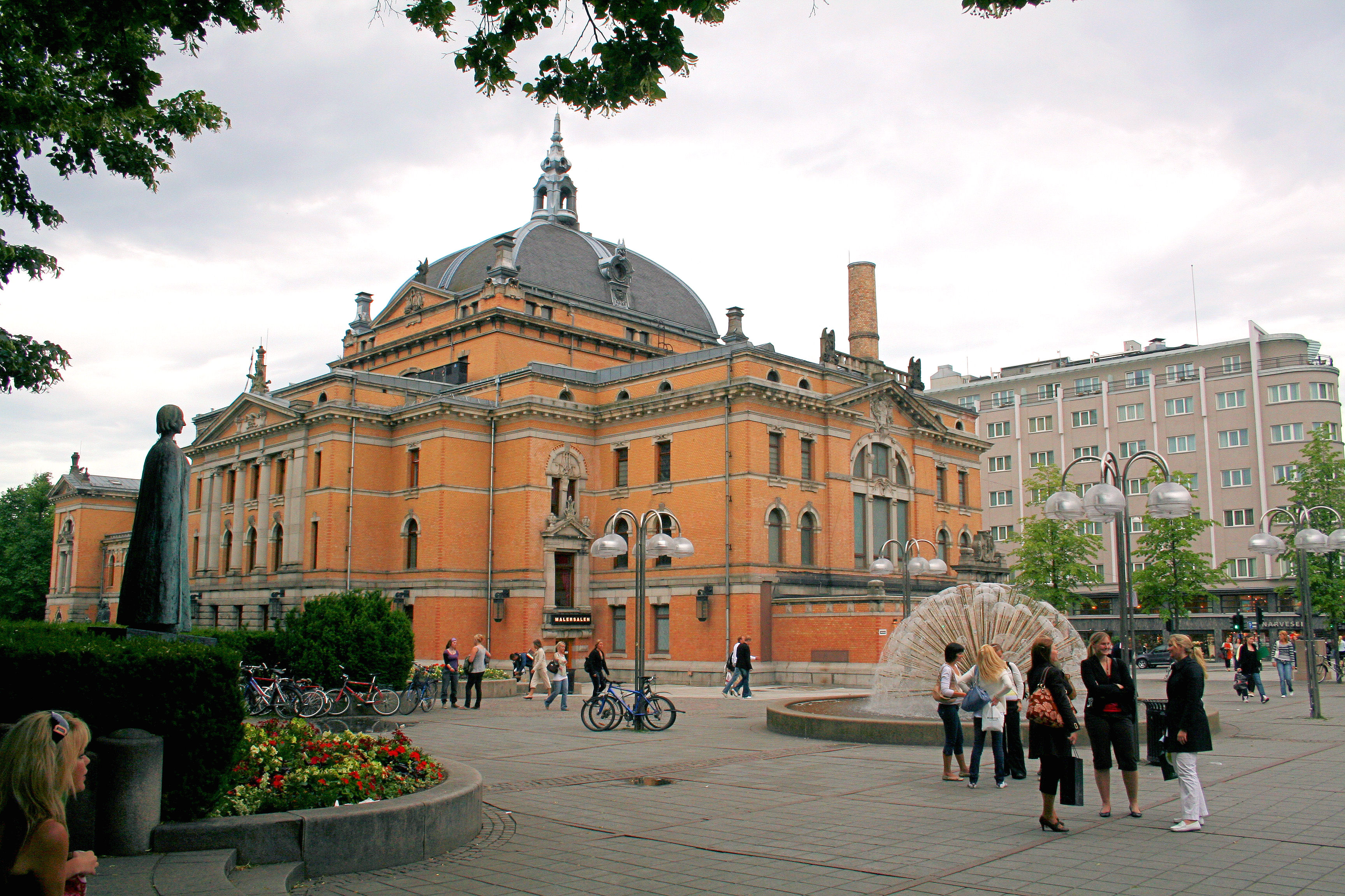 Oslo National Theatre